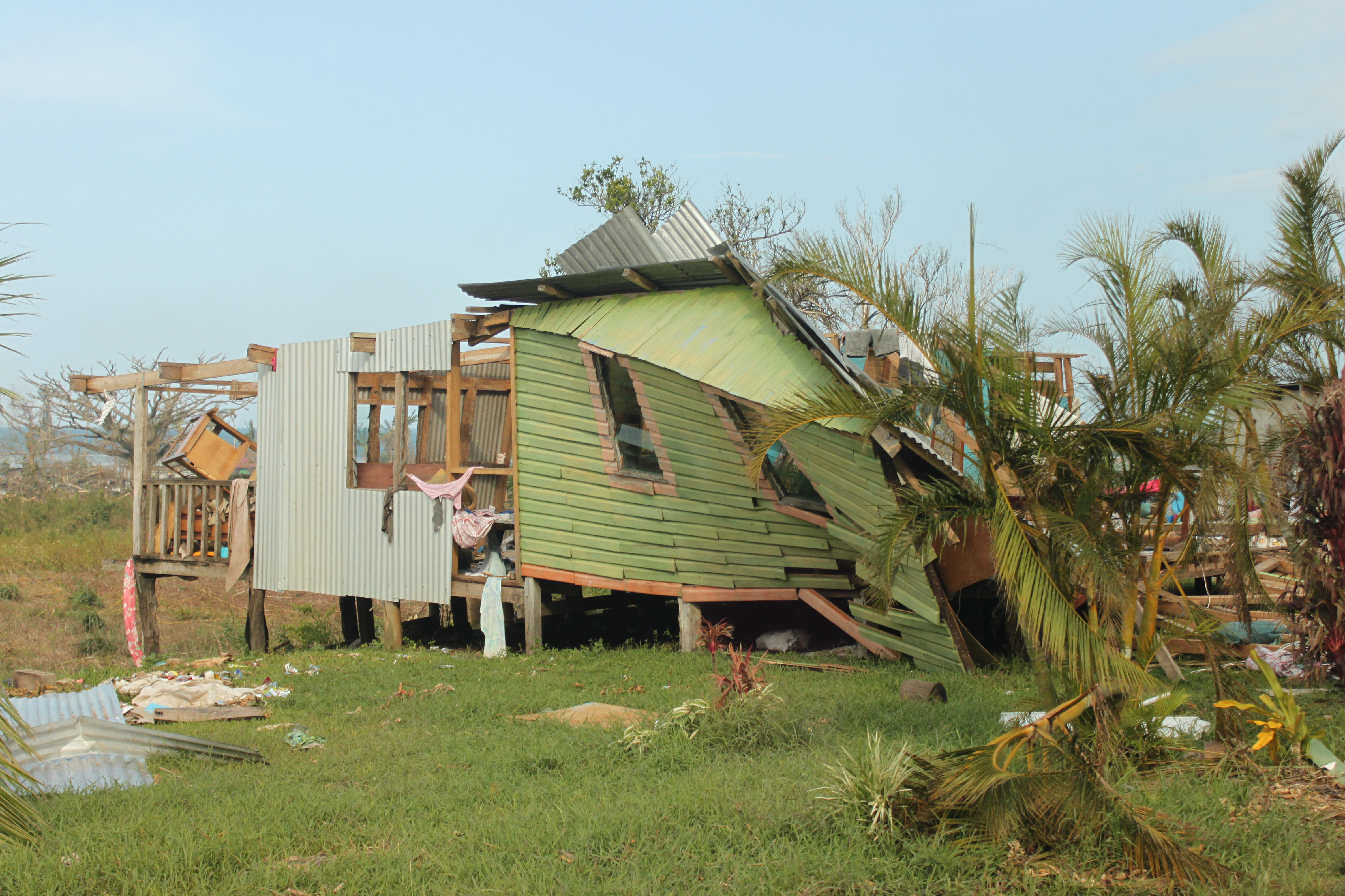 Relief supplies provided by Australian and UNICEF Pacific reaching communities in Tailevu